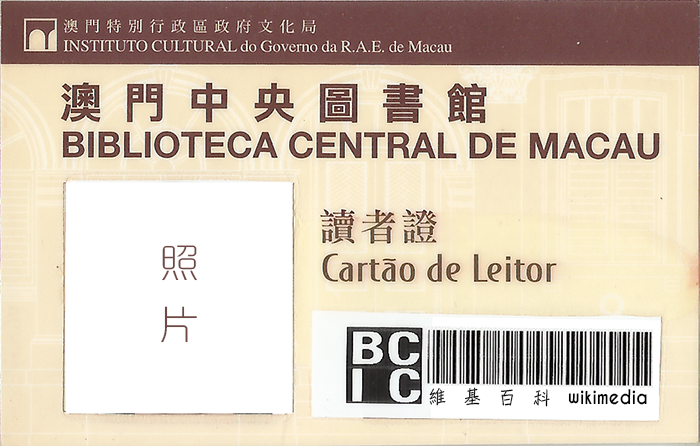 Reader Card of Macau Central Library